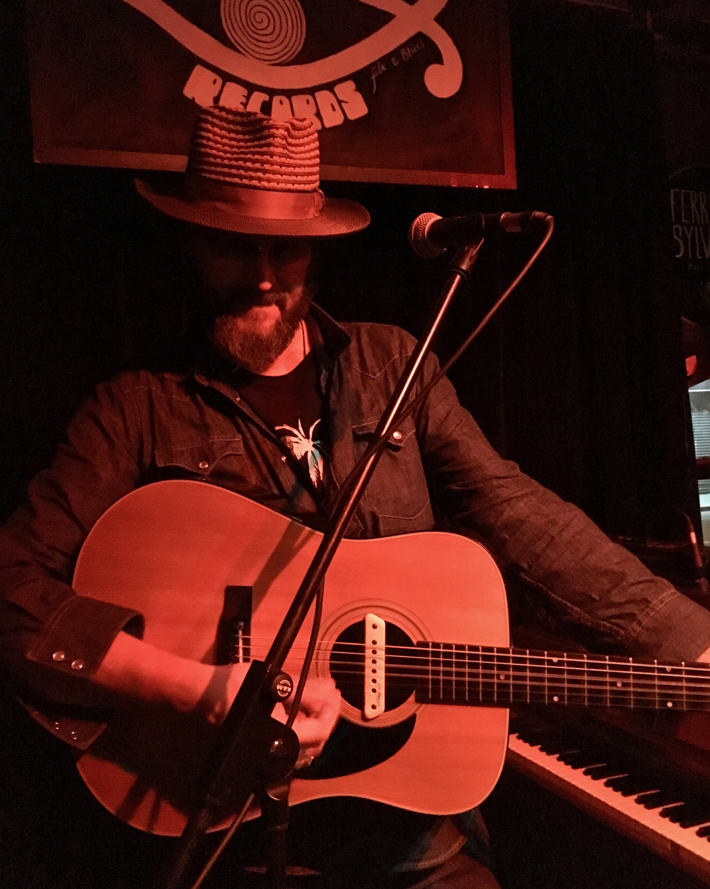 Kenny Roby playing guitar, live at Spiritual Bar in London.